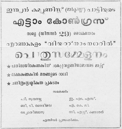 CPIM Party congress poster